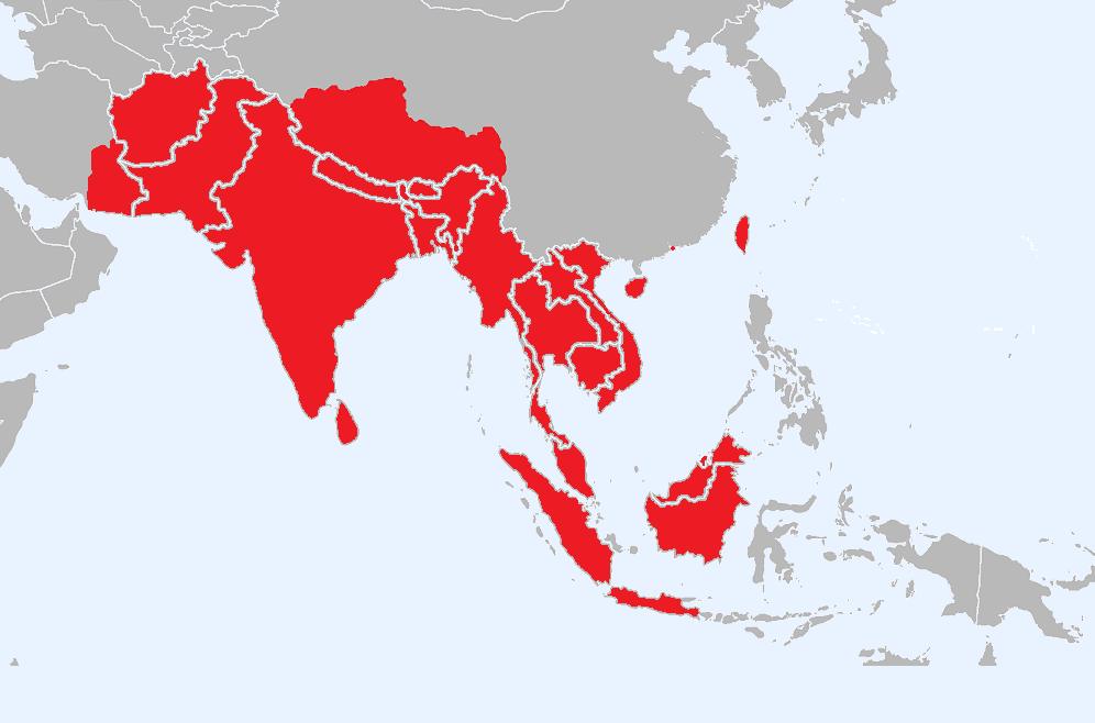 Distribution of Bungarus-species. This is not an exact distribution map, all countries where species are found have been coloured red. Except for China (Hainan, Hongkong, Tibet and Taiwan), for Indonesia (Borneo, Sumatra, Java) and for Iran (Sistan and Baluchestan Province). Based on [File:BlankAsia.png]. I used [File:BlankMap-Iran2.92.png] and [File:TibetMap.png] for borders of resp. Iran and China provences.